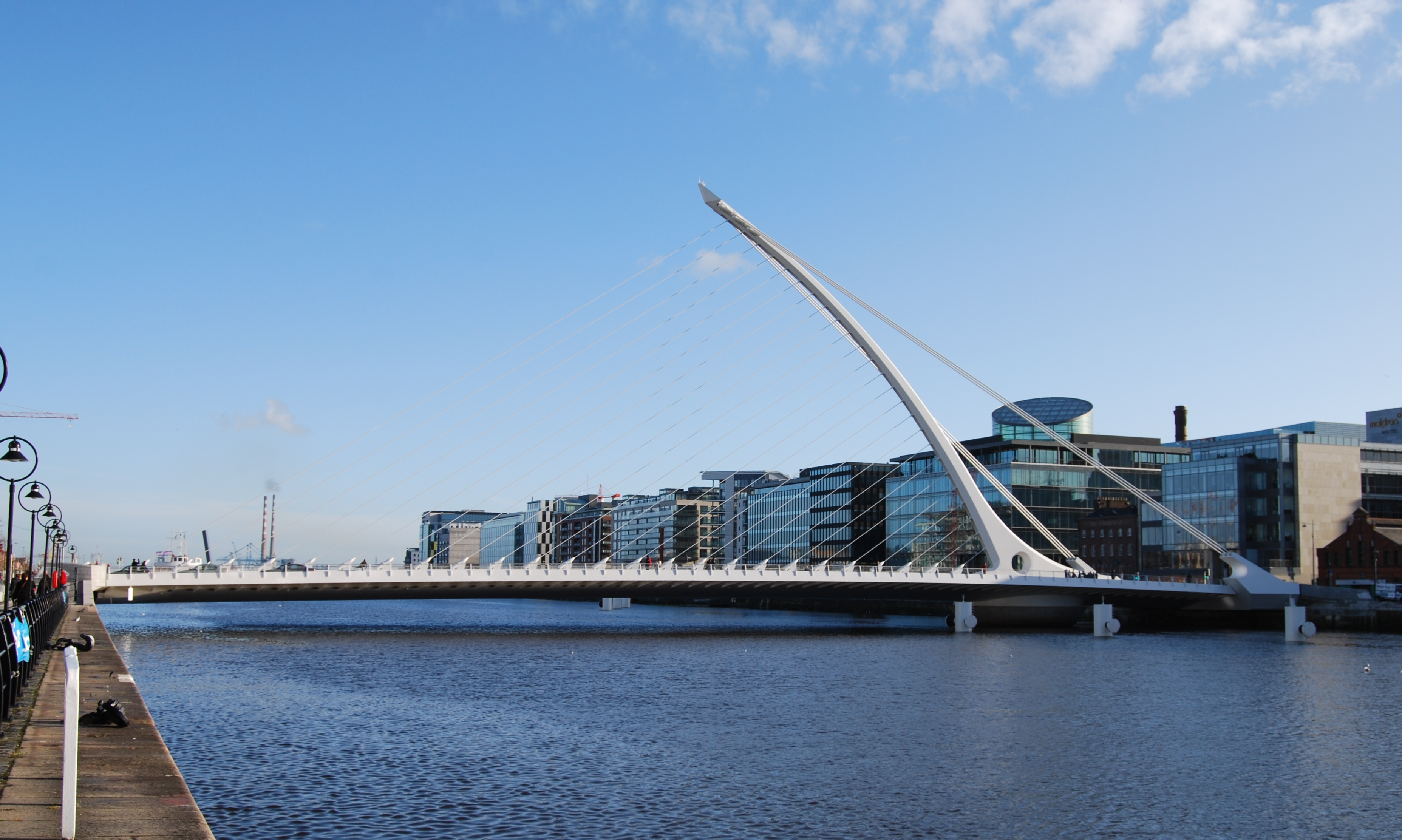 Samuel Beckett Bridge, Dublin, Ireland.